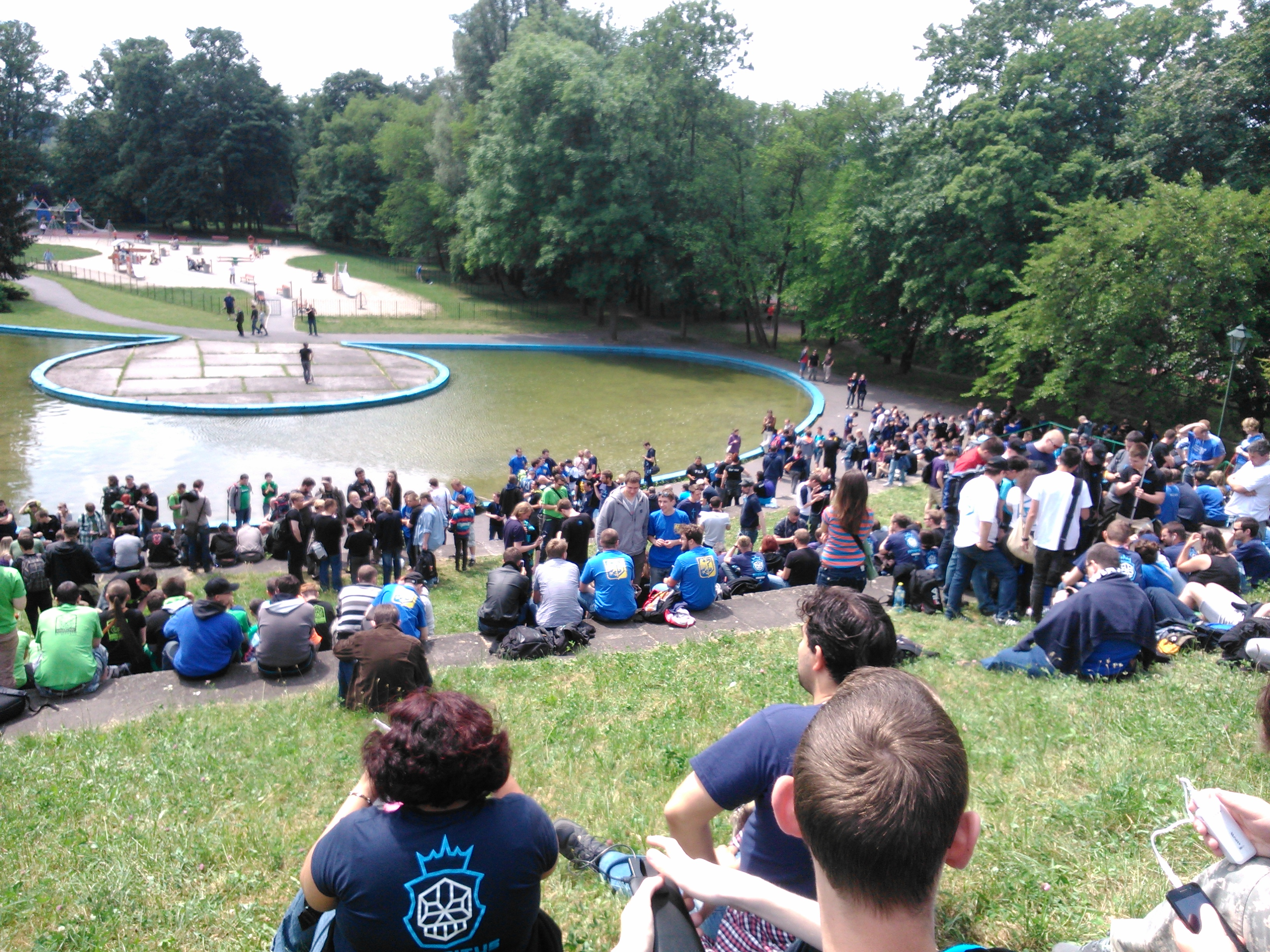 Players waiting for start anomaly in Krakow.